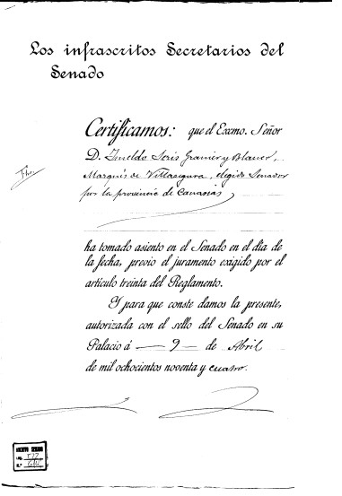 Infrascritos Secretarios del Senado de España certifican al Sr. Imeldo Serís como Senador por la Provincia de Canarias.